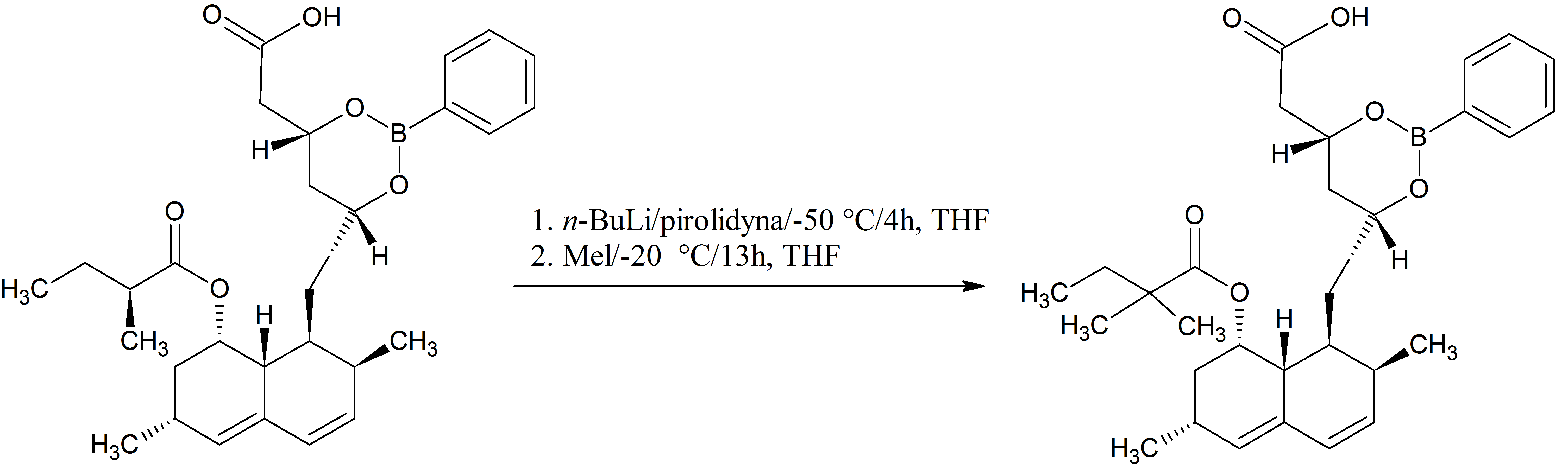 Route to manufacturing simvastatin by direct methylation of lovastatin based on Process for producing simvastatin